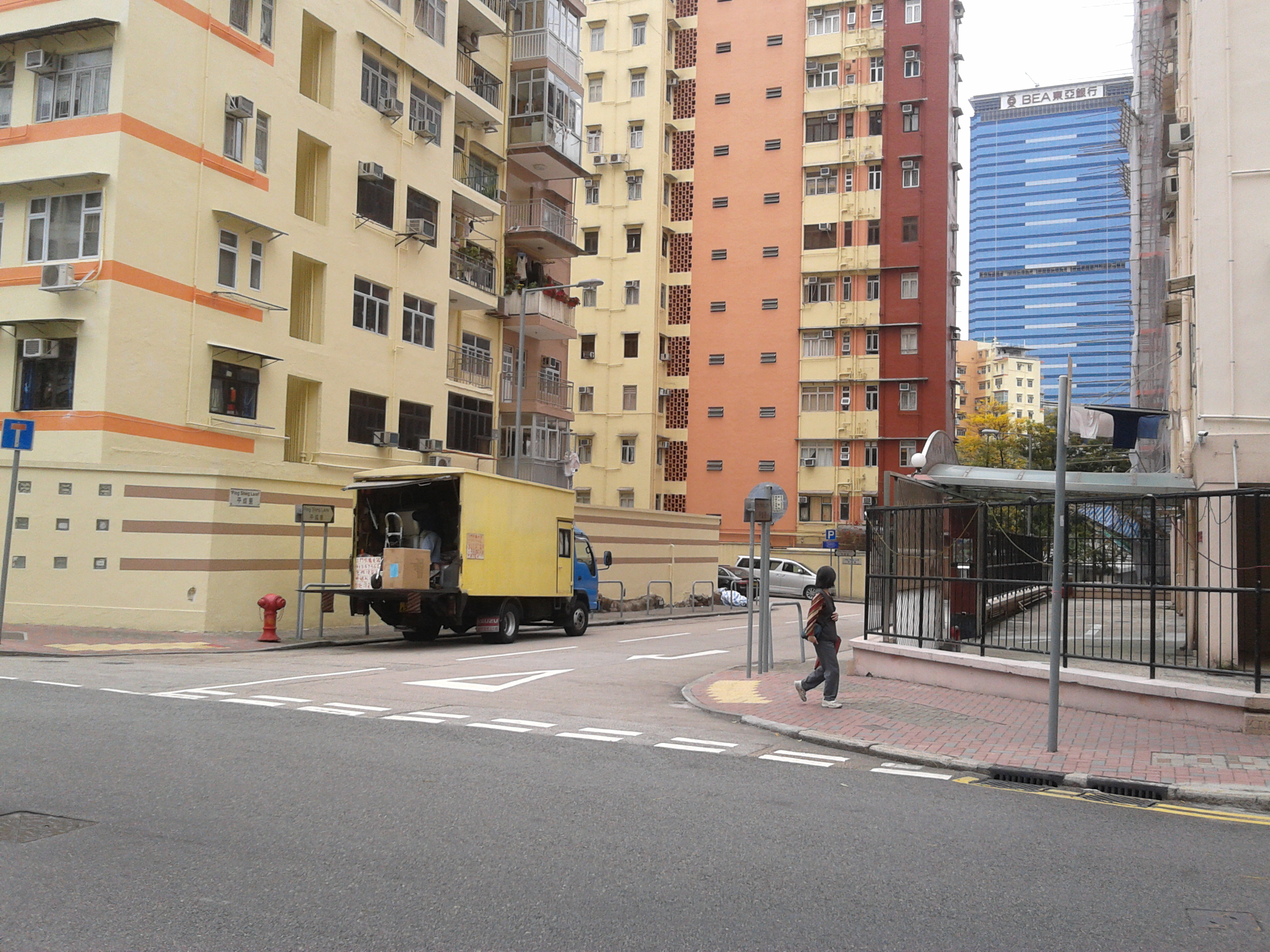 Intersection of Ping Shing Lane and Yuet Wah Street